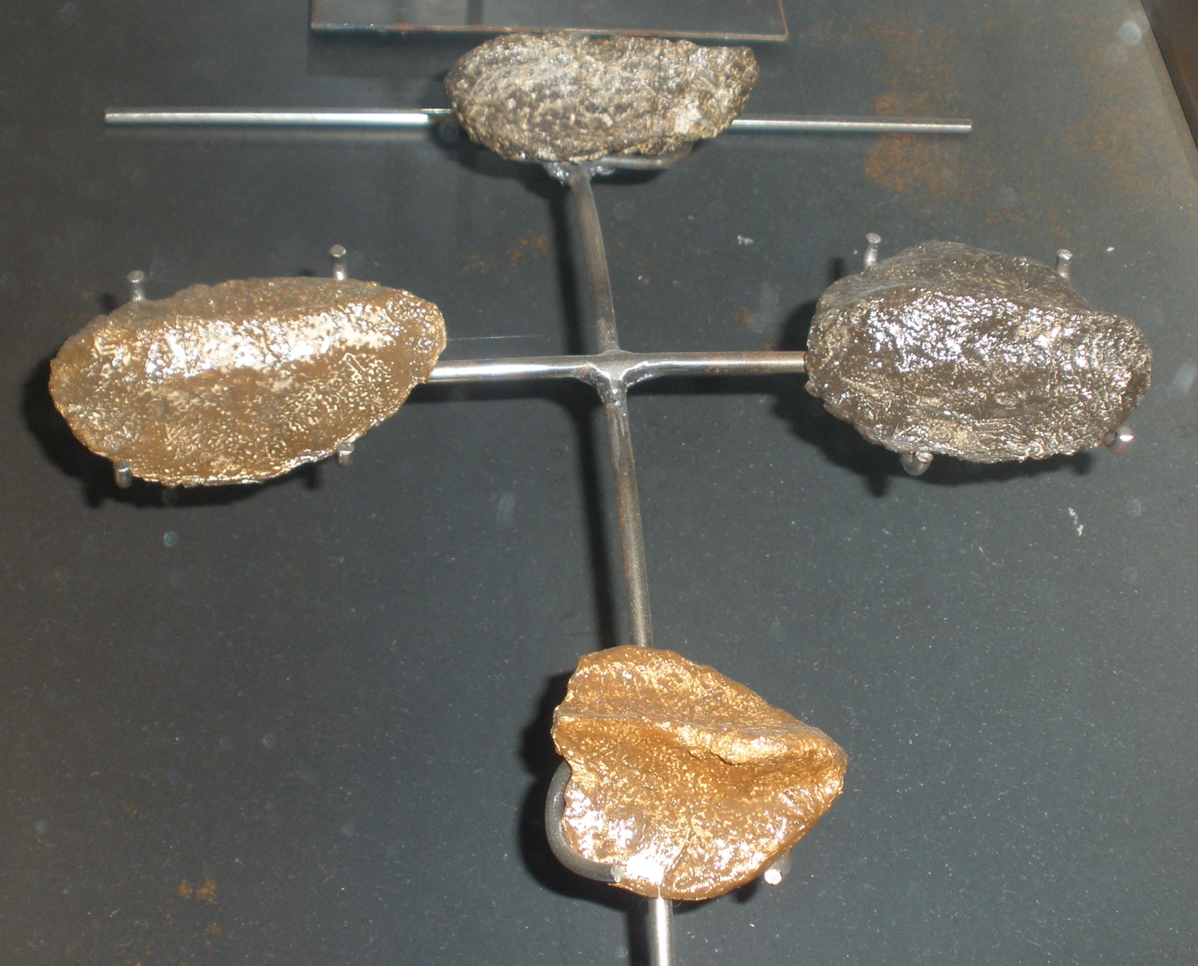 fossil osteoderms of Struthiosaurus occitanicus